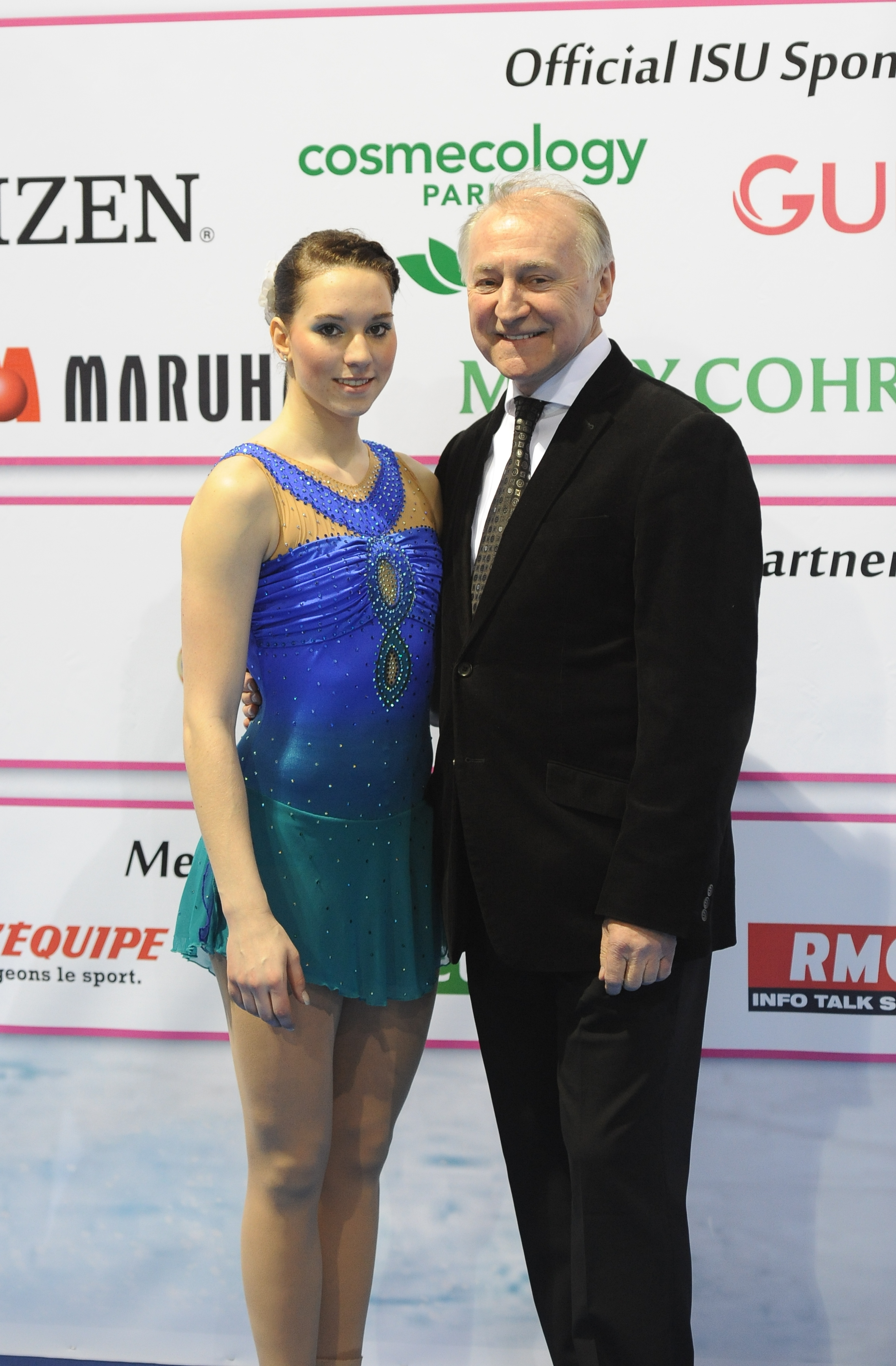 Peter Sczypa, German National Figure Skating Coach Ladies and Sarah Hecken at the Worlds 2012 in Nice